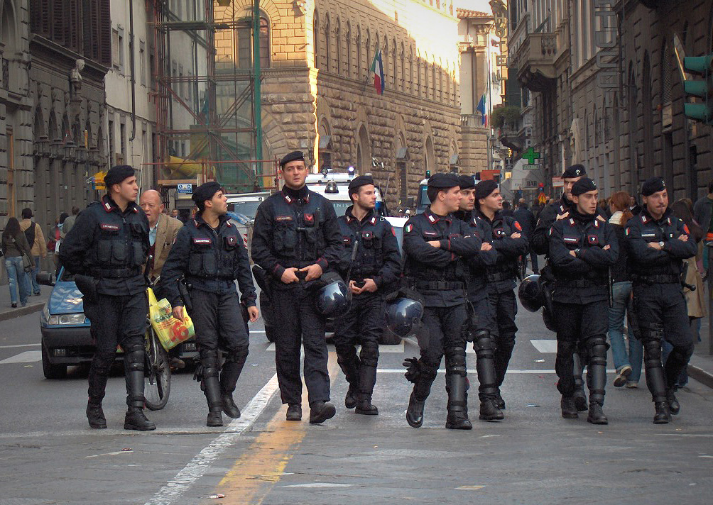 Carabinieri at a manifestation in Florence, Italy Olasz csendőrök Firenzében Own photo - photo made on 12 October 2005